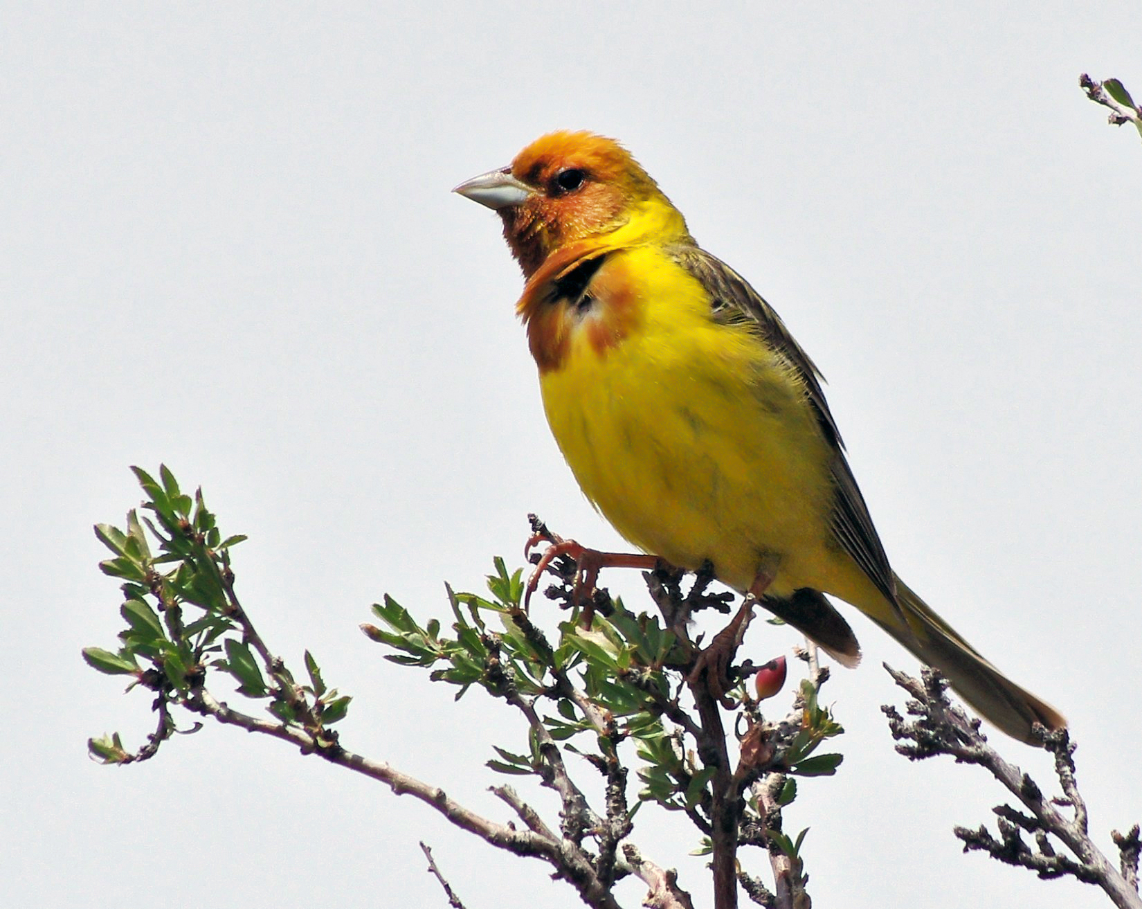 A male Red-headed Bunting in Tanbaly, Kazakhstan.